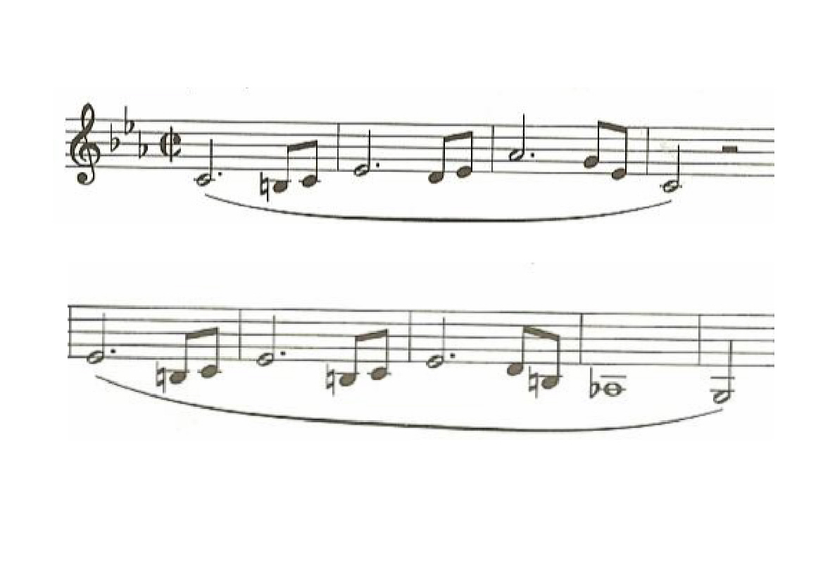 Score fragment from Giuseppe Verdi's 1849 opera Luisa Miller